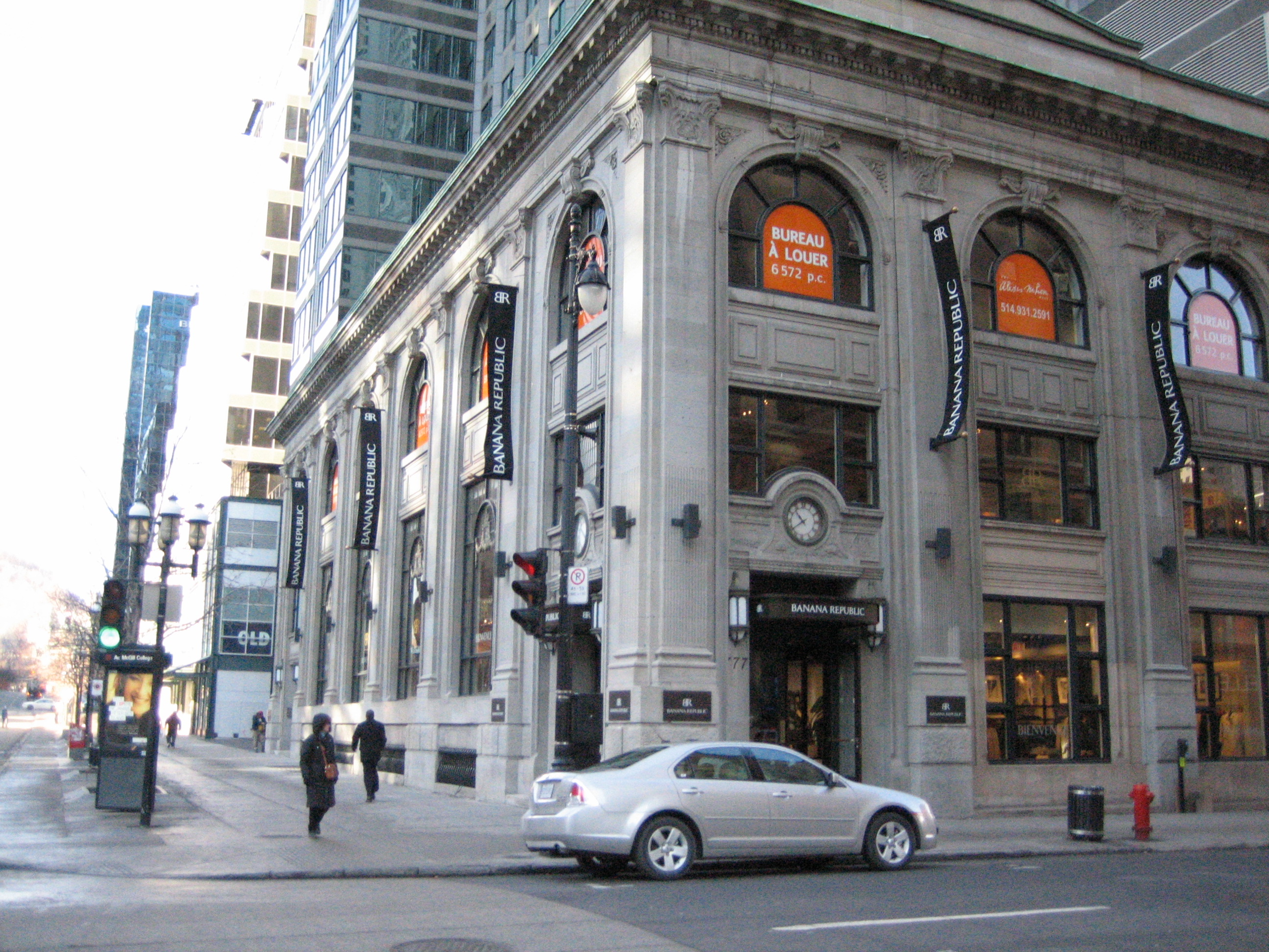 777 Sainte-Catherine Street West, Montreal, Quebec, Canada. "I took this photo when i was downtown"